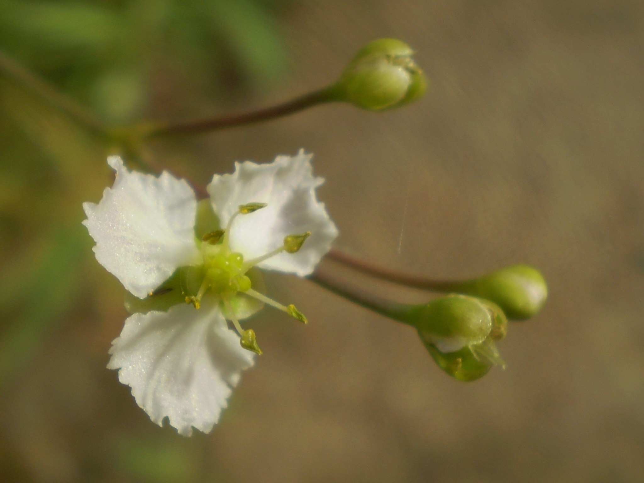 A flower of Caldesia parnassifolia